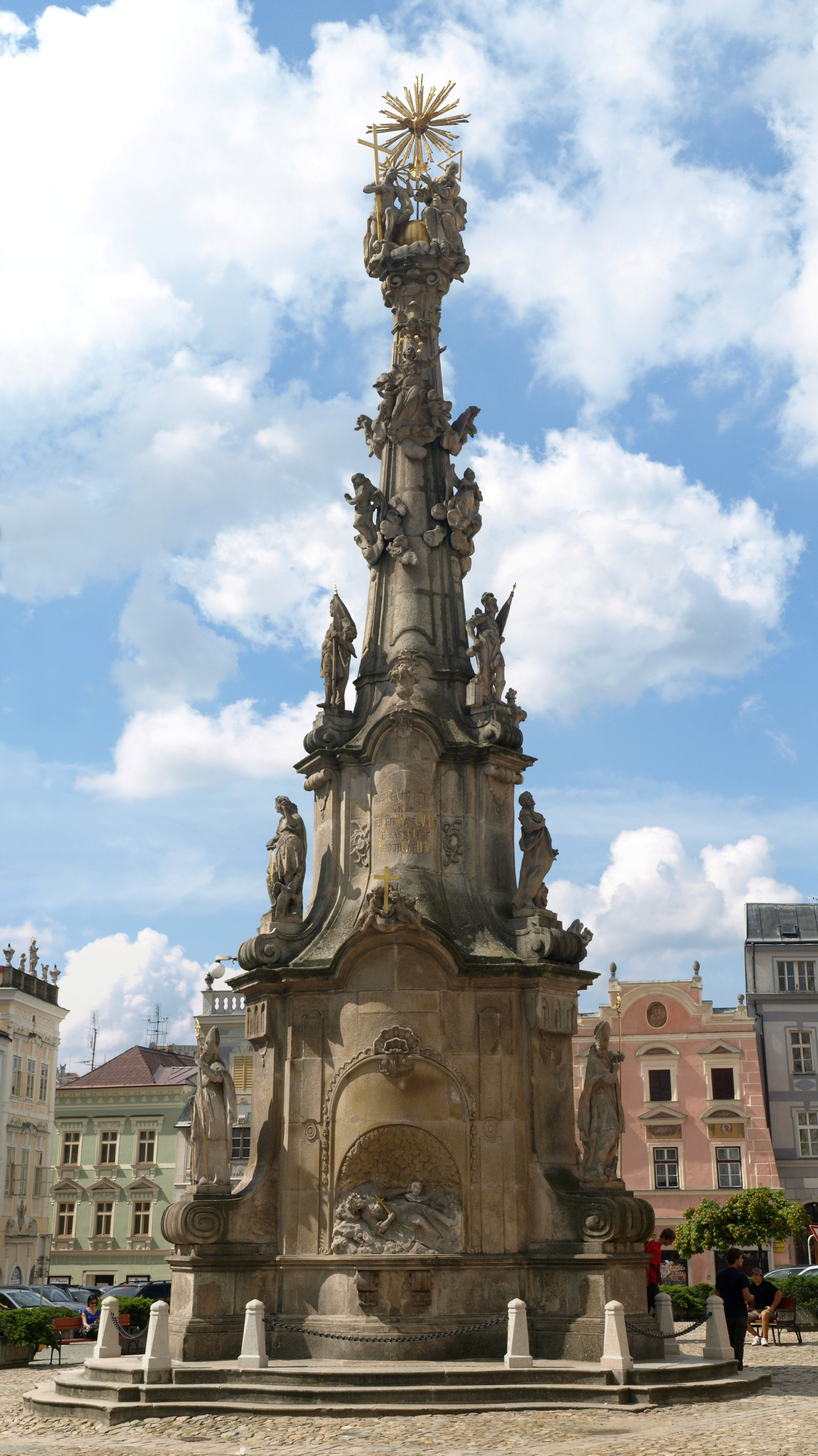 Holy Trinity´s sculpture situated on Náměstí Míru, main square of Jindřichův Hradec, the Czech Republic.